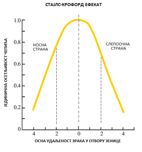 СТАЈЛС-КРОФОРД ЕФЕКАТ